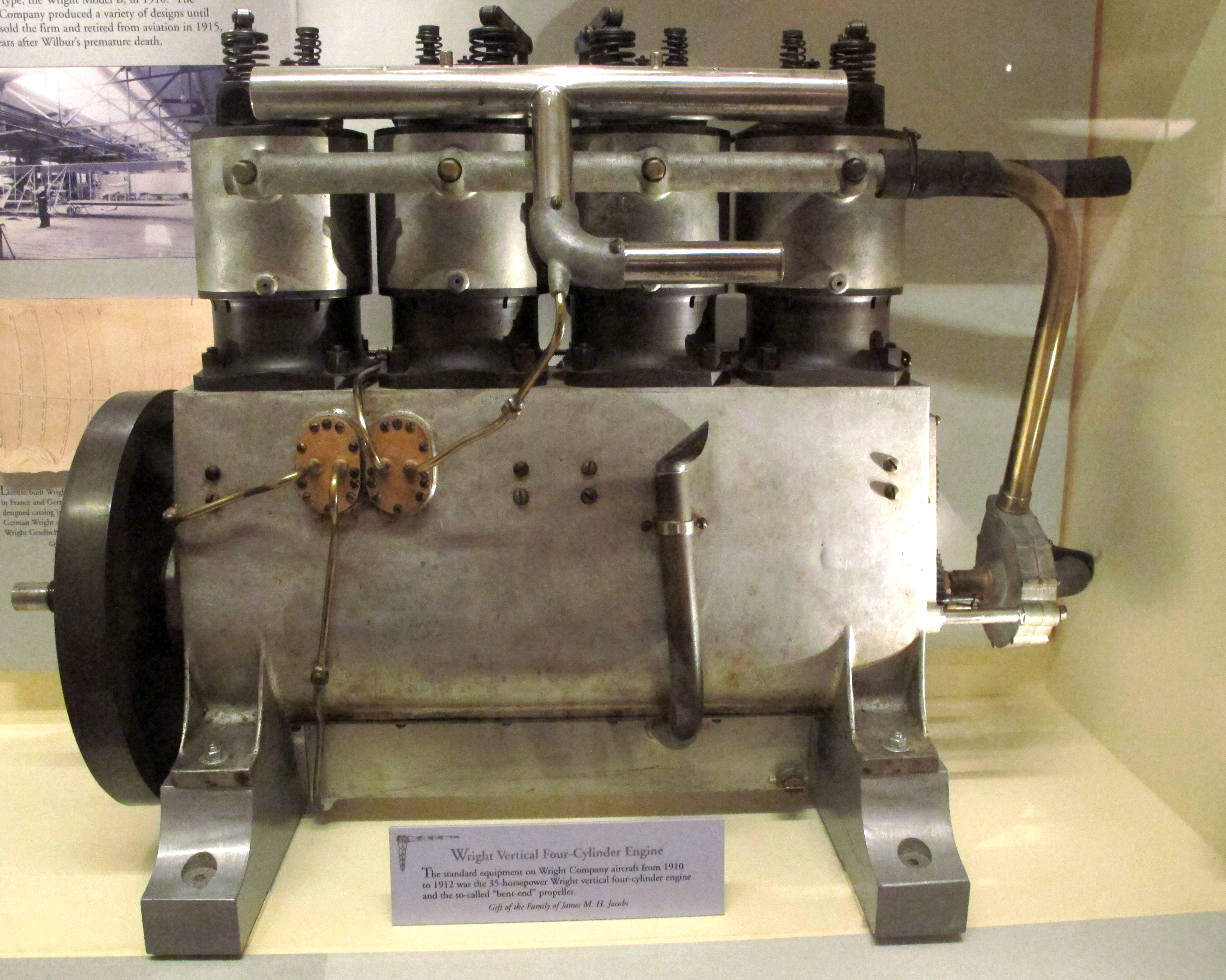 The standard equipment on Wright Company Aircraft from 1910 to 1912 was the 35 HP Wright vertical four-cylinder engine and the so-called "bent-end" propeller. Picture taken at the "Smithsonian National Air and Space Museum", Washington, DC USA.